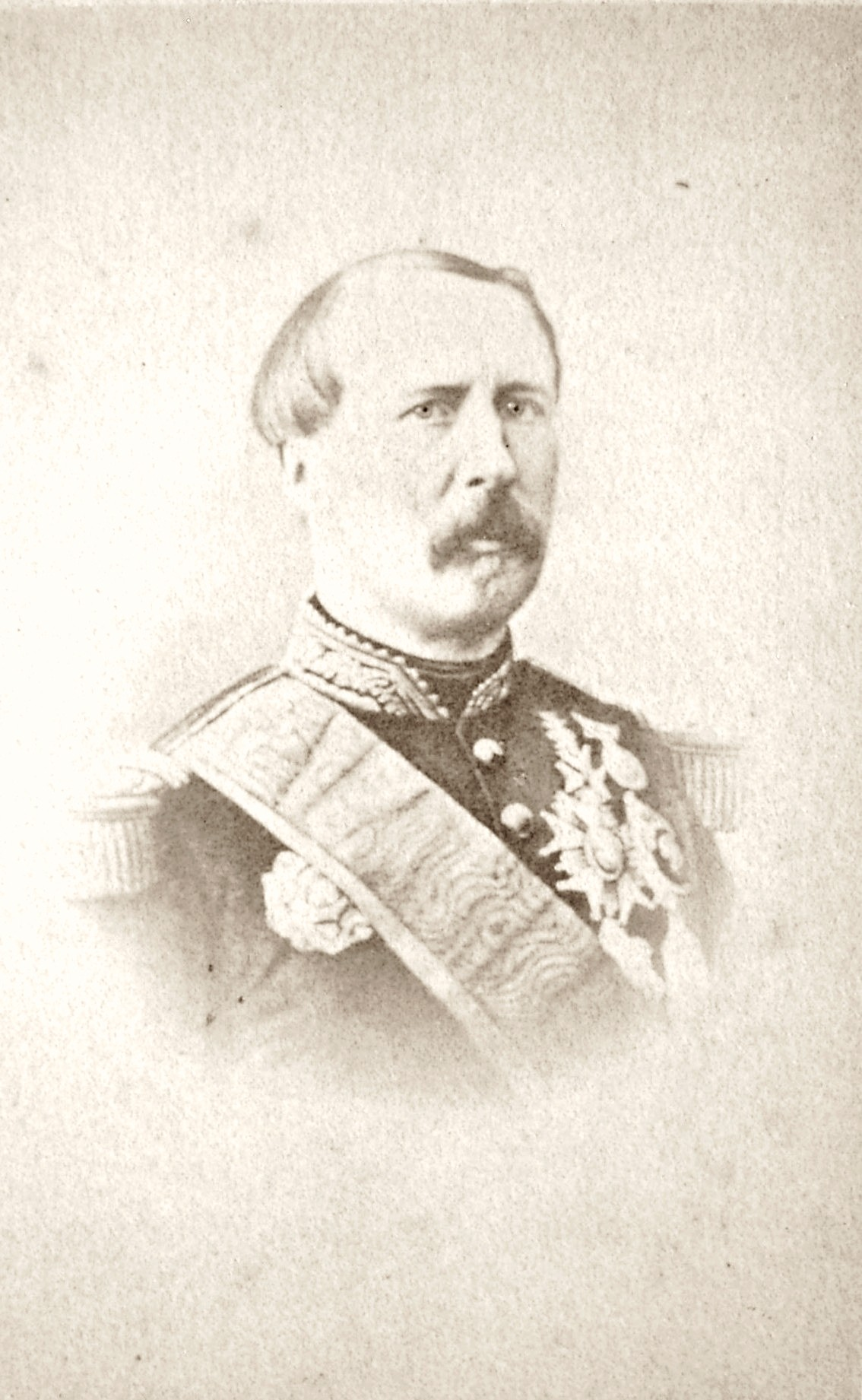 Patrice de Mac-Mahon, Marchal of France